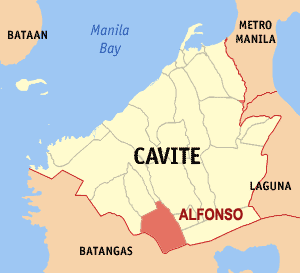 Map of Cavite showing the location of Alfonso